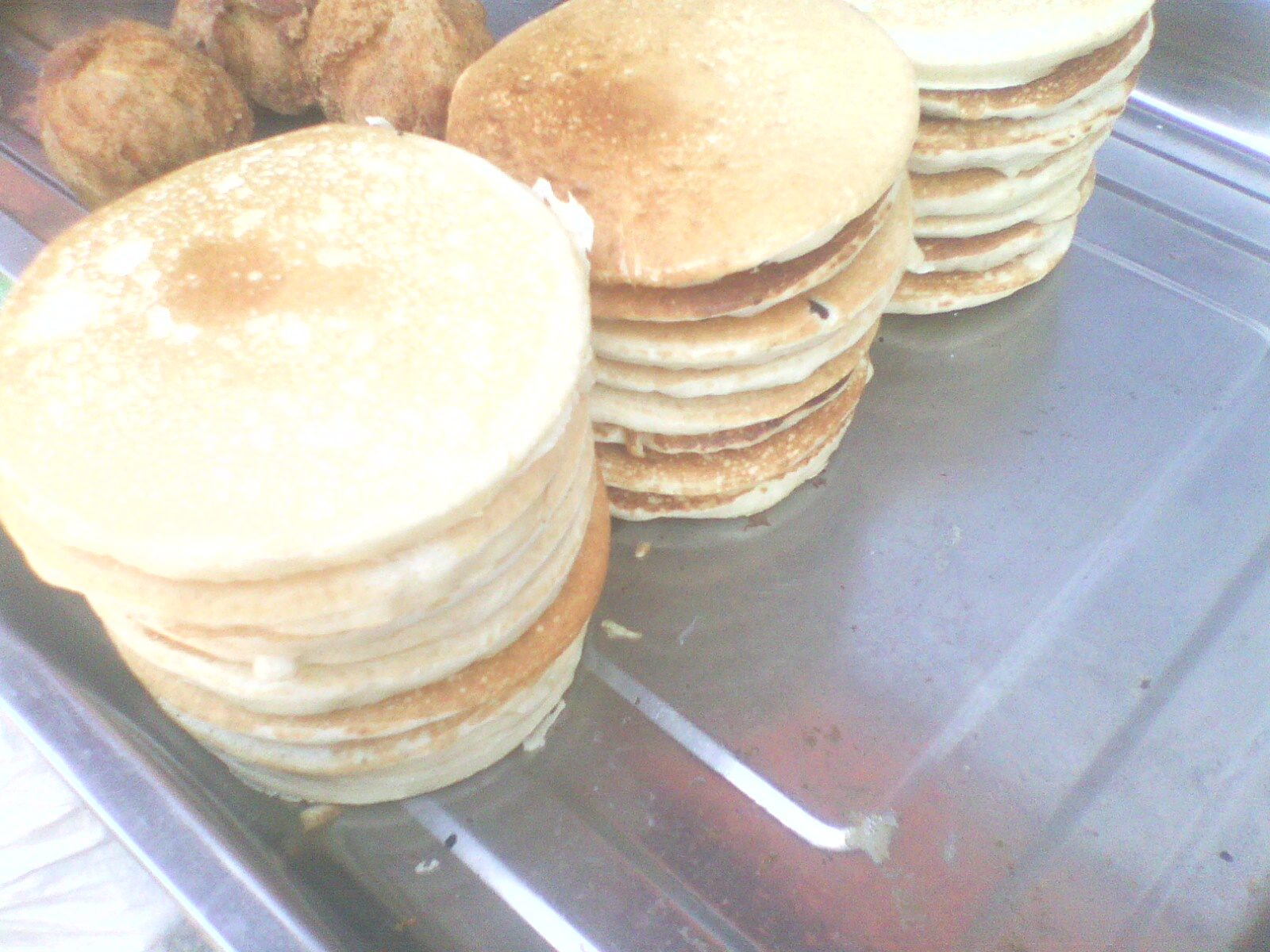 mokary efa masaka